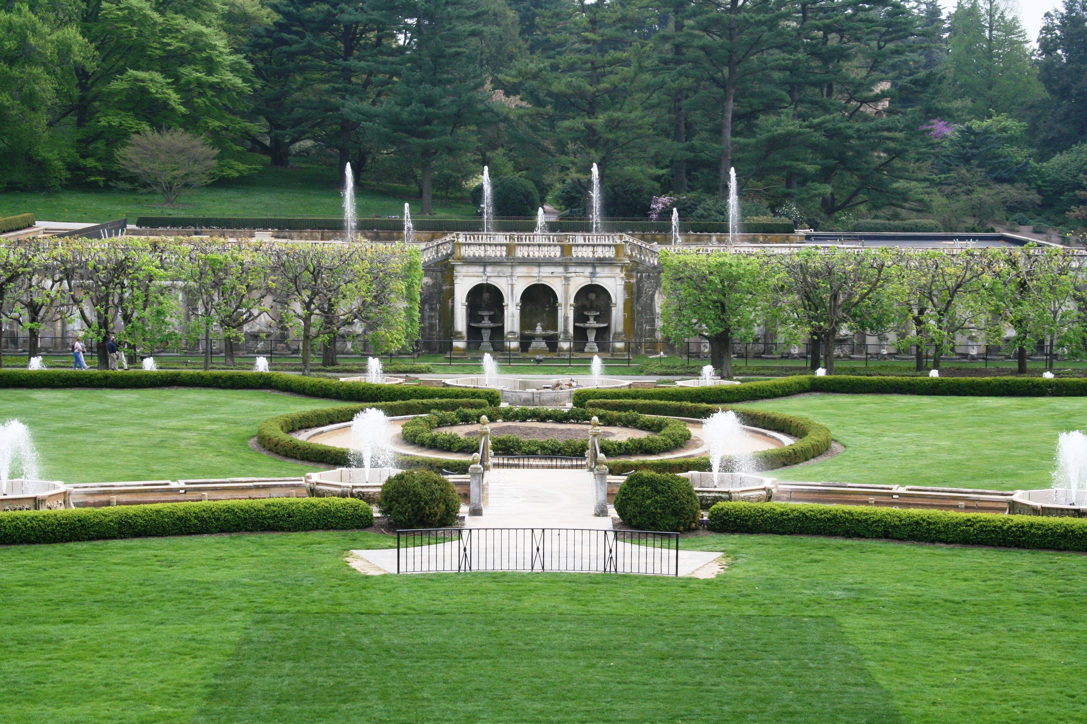 Main Fountains at Longwood Gardens in Kennett Square, PA